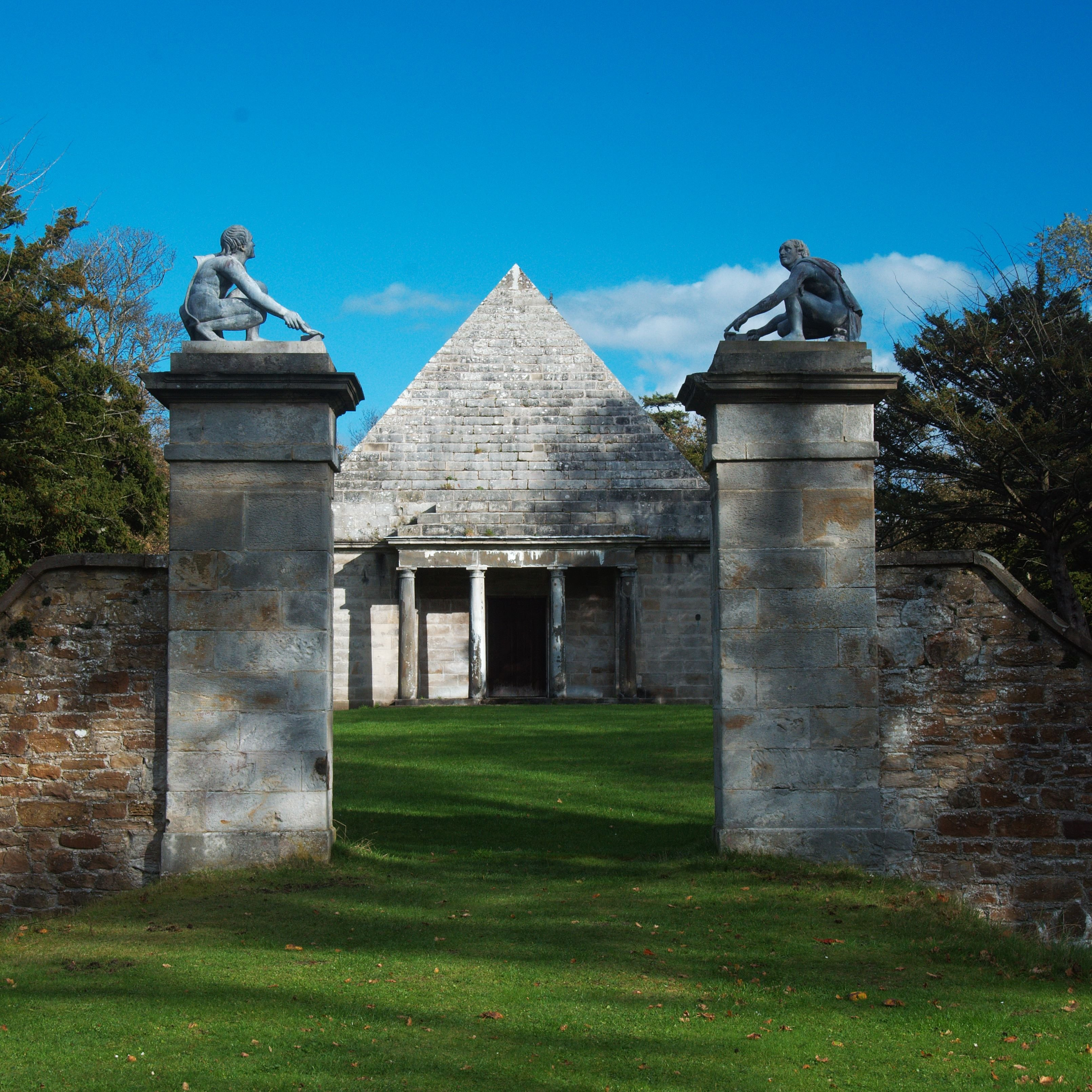 Small pyramid (mausoleum) at Gosford House, near Longniddry, East Lothian, Scotland.